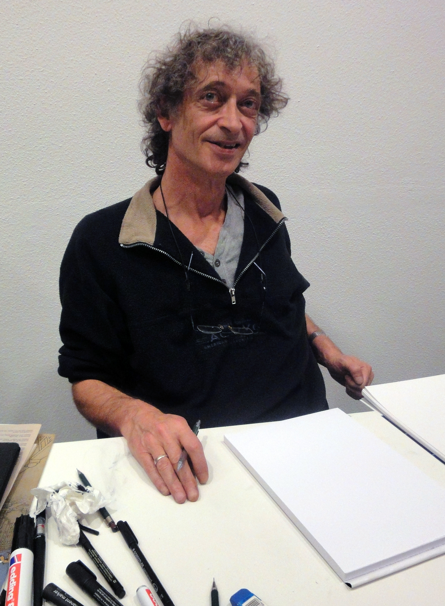 Drawing on demand at the Liberation day festival →This file has been extracted from another file: Marnix Rueb2.jpg.